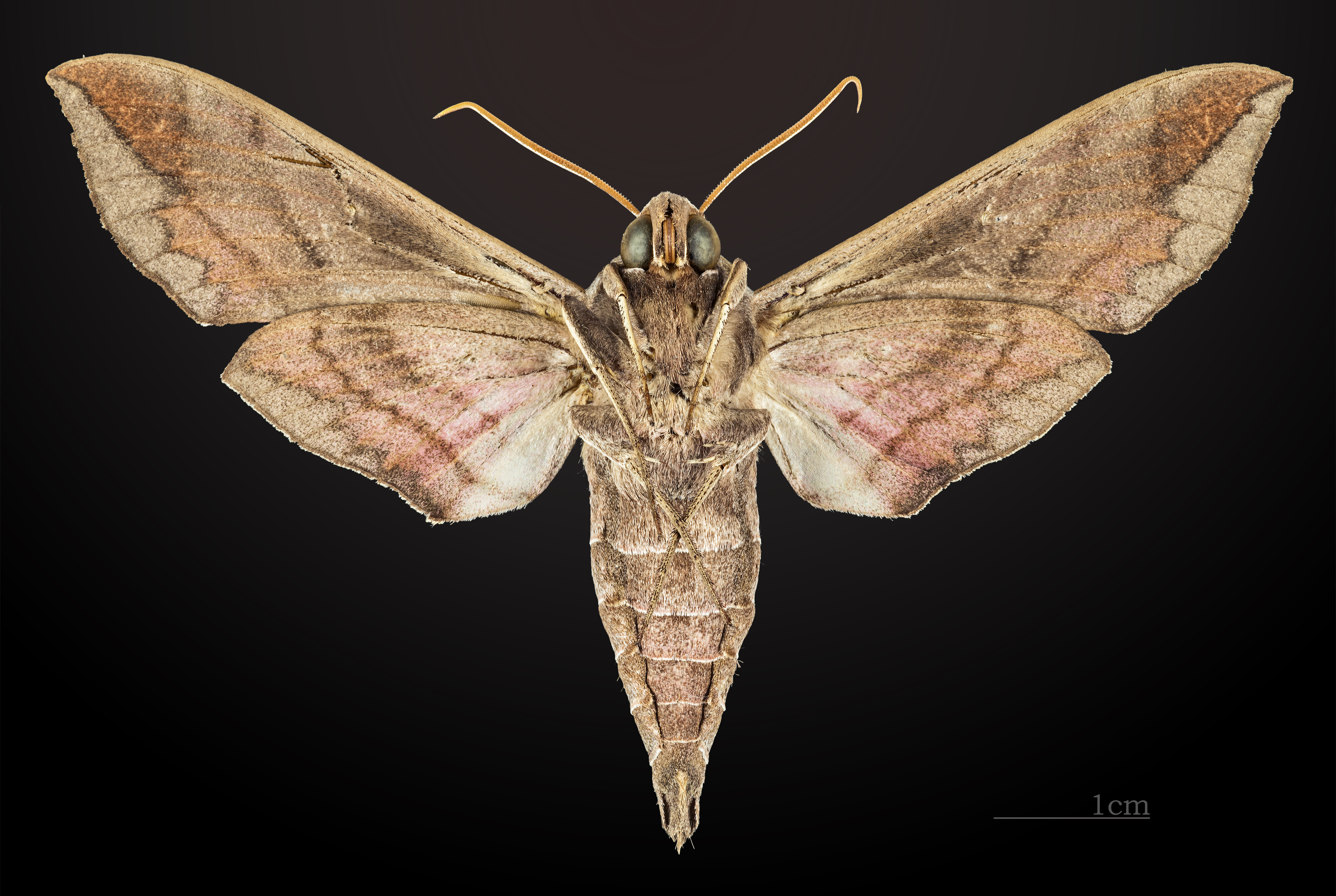 Satellite sphinx - △ Ventral side Collection of the Mathematician Laurent Schwartz